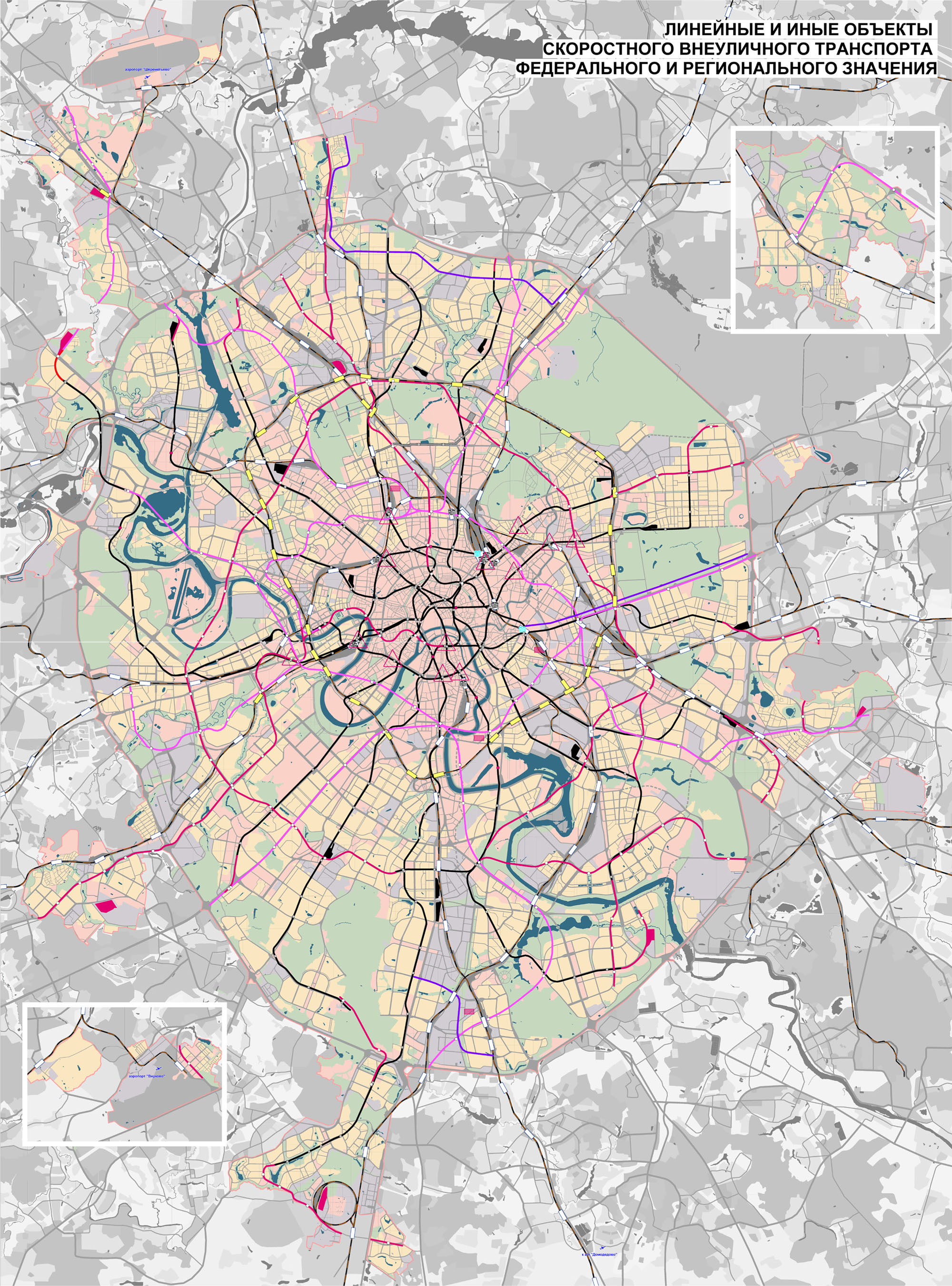 The general plan of Moscow metro construction (until 2025)